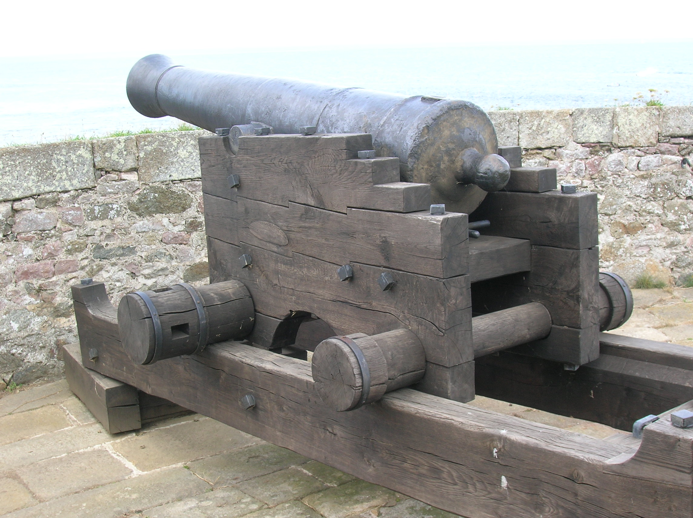 Fort La Latte, Côtes d'Armor, France : Un des huit canons du fort, 1778, calibre 18, distance 1000 m (One of eight artillery of the fort, 1778, calibre 18, outstrips 1000 m)